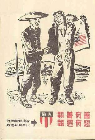 This leaflet depicts an American aviator opening his flight jacket to show a Chinese farmer his "blood chit" in the form of an American flag. Text on the front is: Plant melons and harvest melons, plant peas and harvest peas. This is similar to the Biblical proverb: As ye sow shall you reap. Text on the back explains that by doing the simple good deed of returning an American pilot to friendly forces the civilians will be richly rewarded. In addition, text at the bottom of the leaflet is: Please notice this symbol with an arrow pointing to the China-Burma-India (CBI) Theater of War insignia.